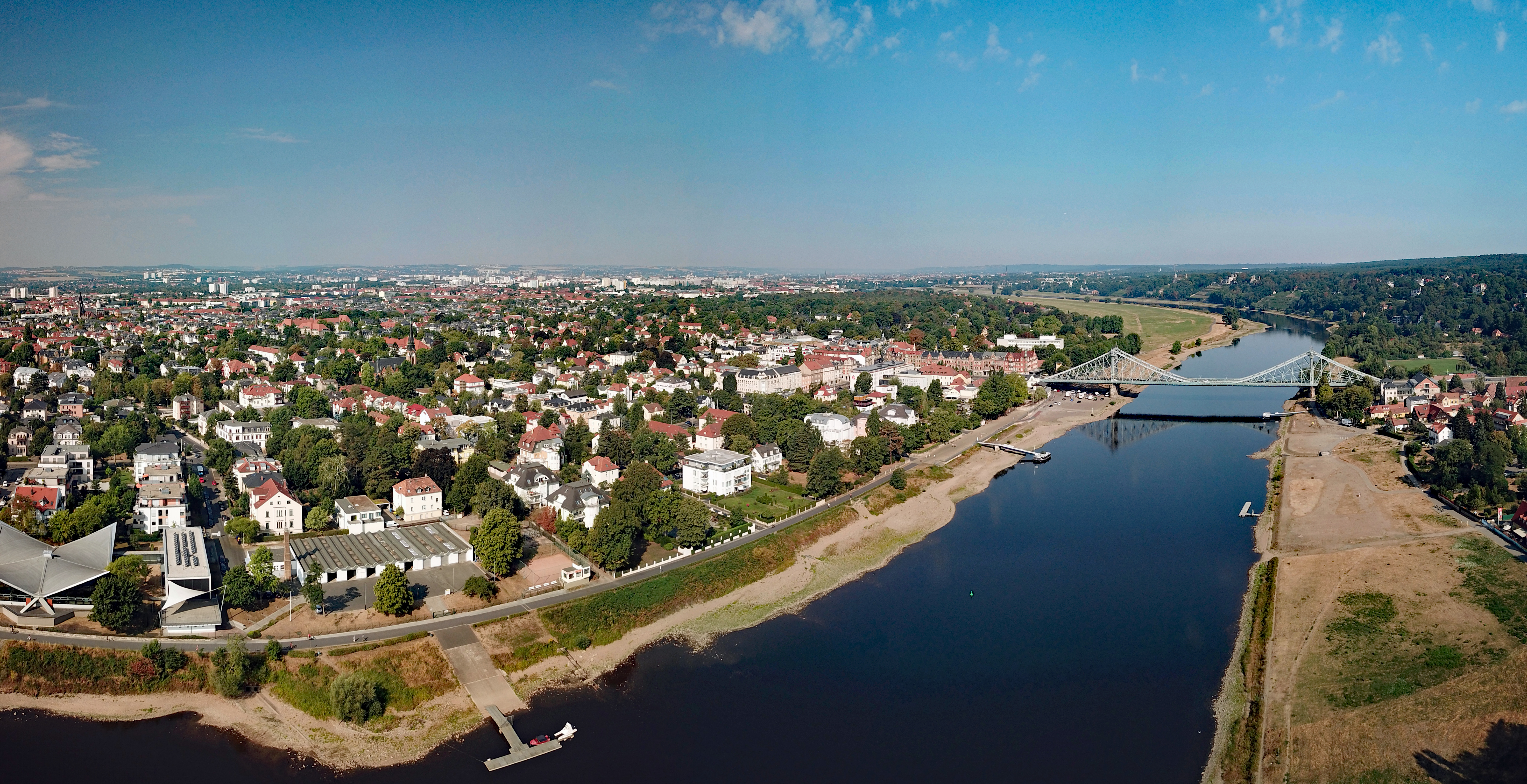 Blasewitz (Dresden, Saxony, Germany)